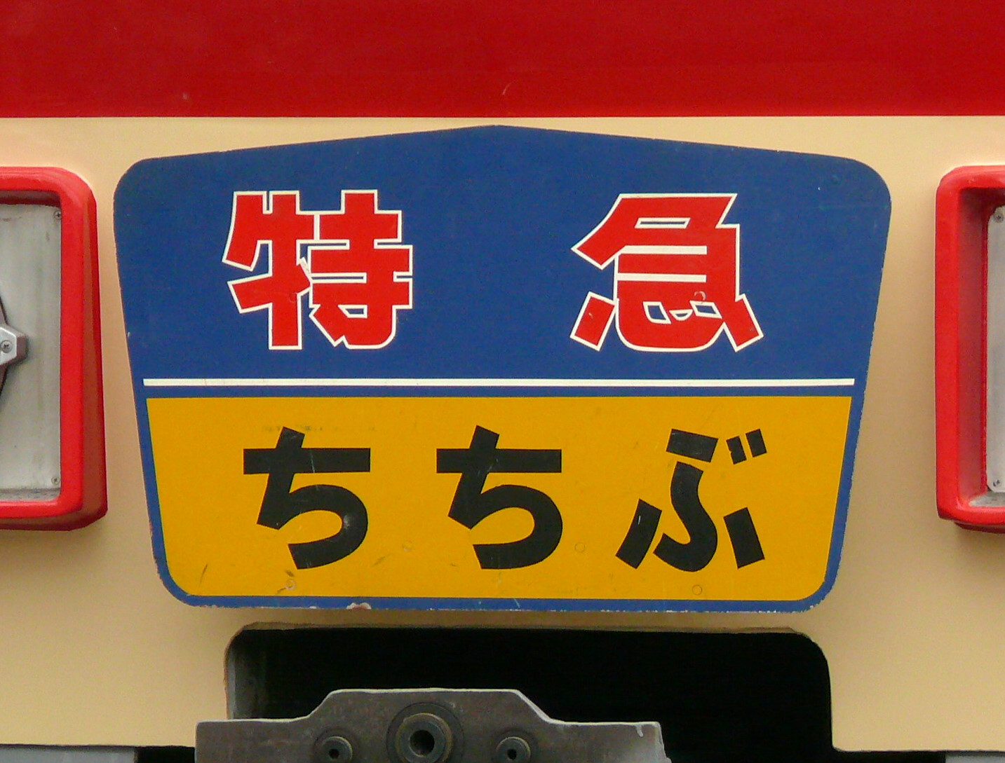 Seibu Railway Type 5000 EMU Kuha 5503.